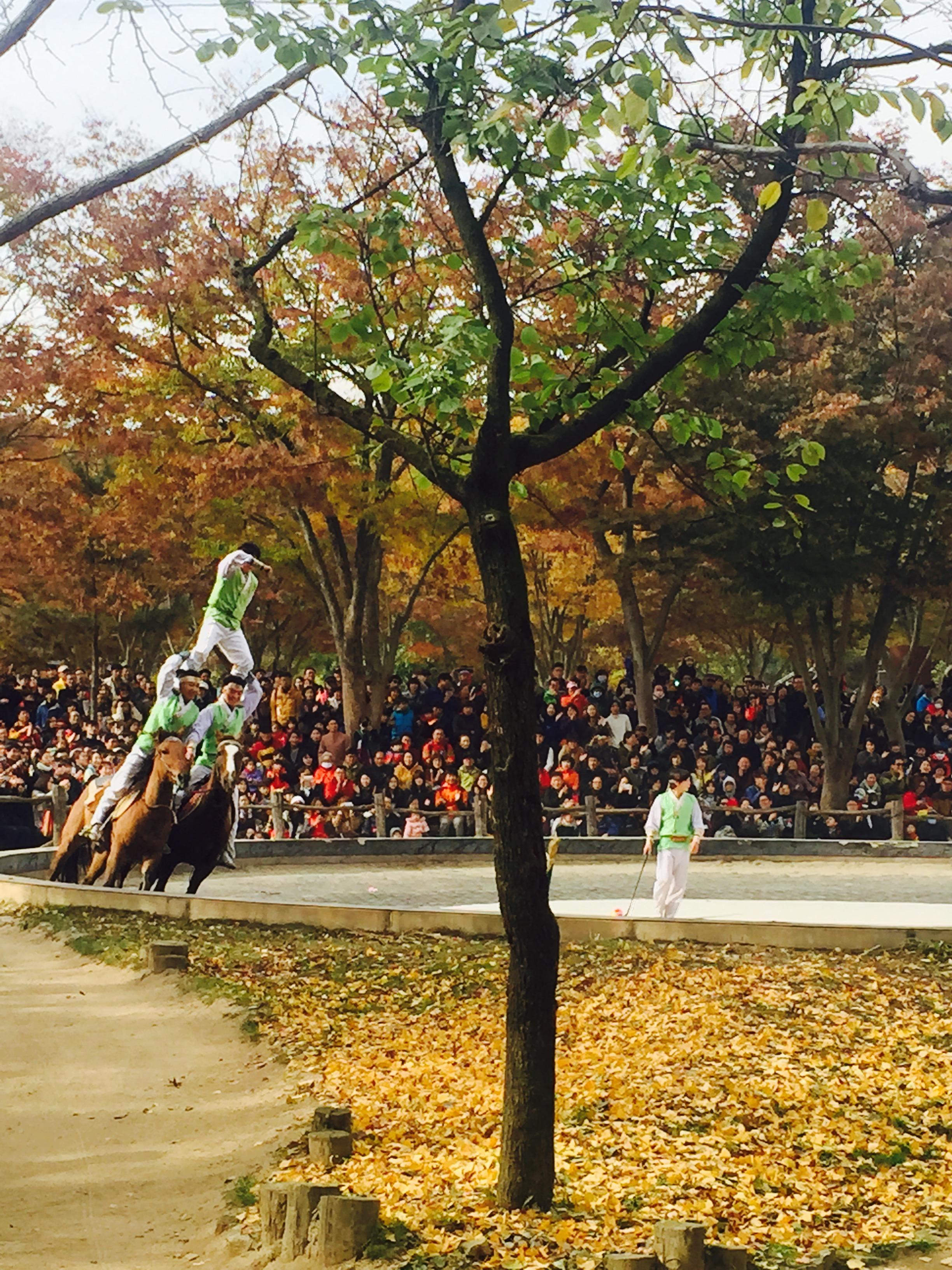 Horseback martial arts